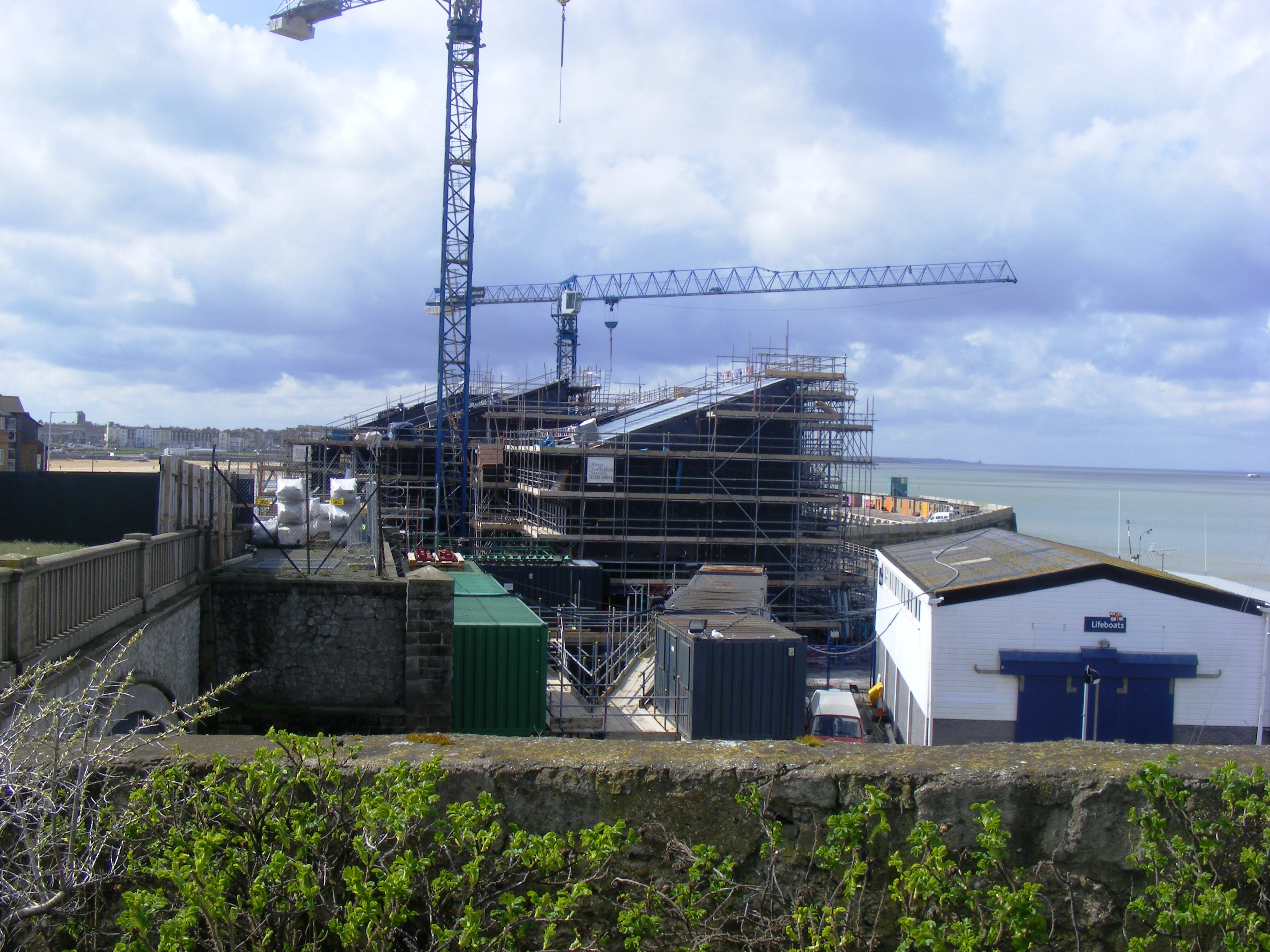 Construction of Turner Contemporary, Margate in April 2010 from the north